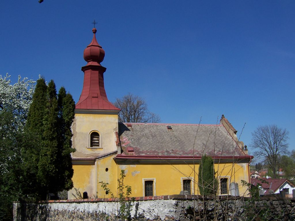 Tehov, church of St. Jan Křtitel.